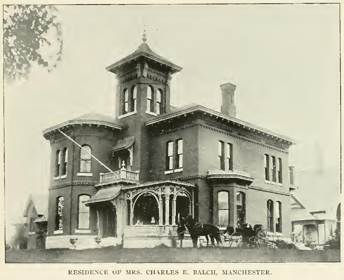 "At 1799 Elm street, Manchester, stands the handsome and commodious brick mansion erected in 1881 by the late Colonel Charles E. Balch, from plans drawn by James T. Fanning (sic), and based upon suggestions of the owner. This house is now (in 1895) occupied by Colonel Balch's Widow. Colonel Balch was cashier of the Manchester Bank, and a member of Governor Head's staff."